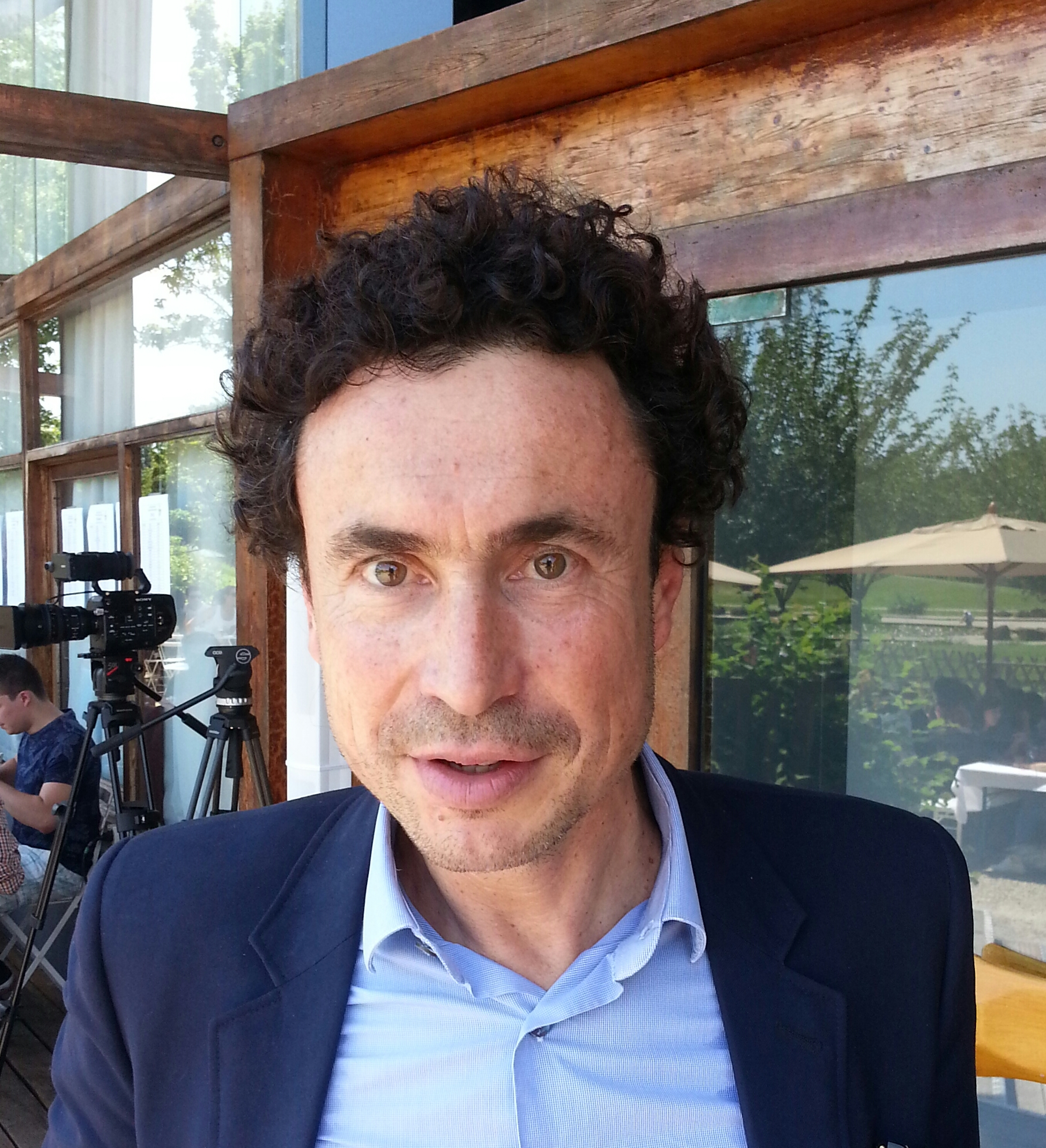 Jacques Veyrat, June 2016